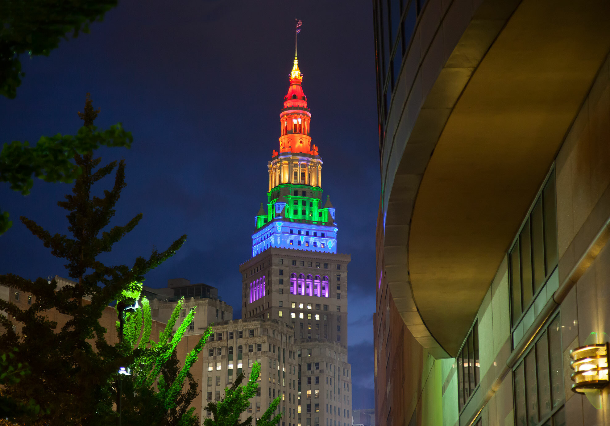 Cleveland's Terminal Tower illuminated in rainbow colors for the Gay Games 9